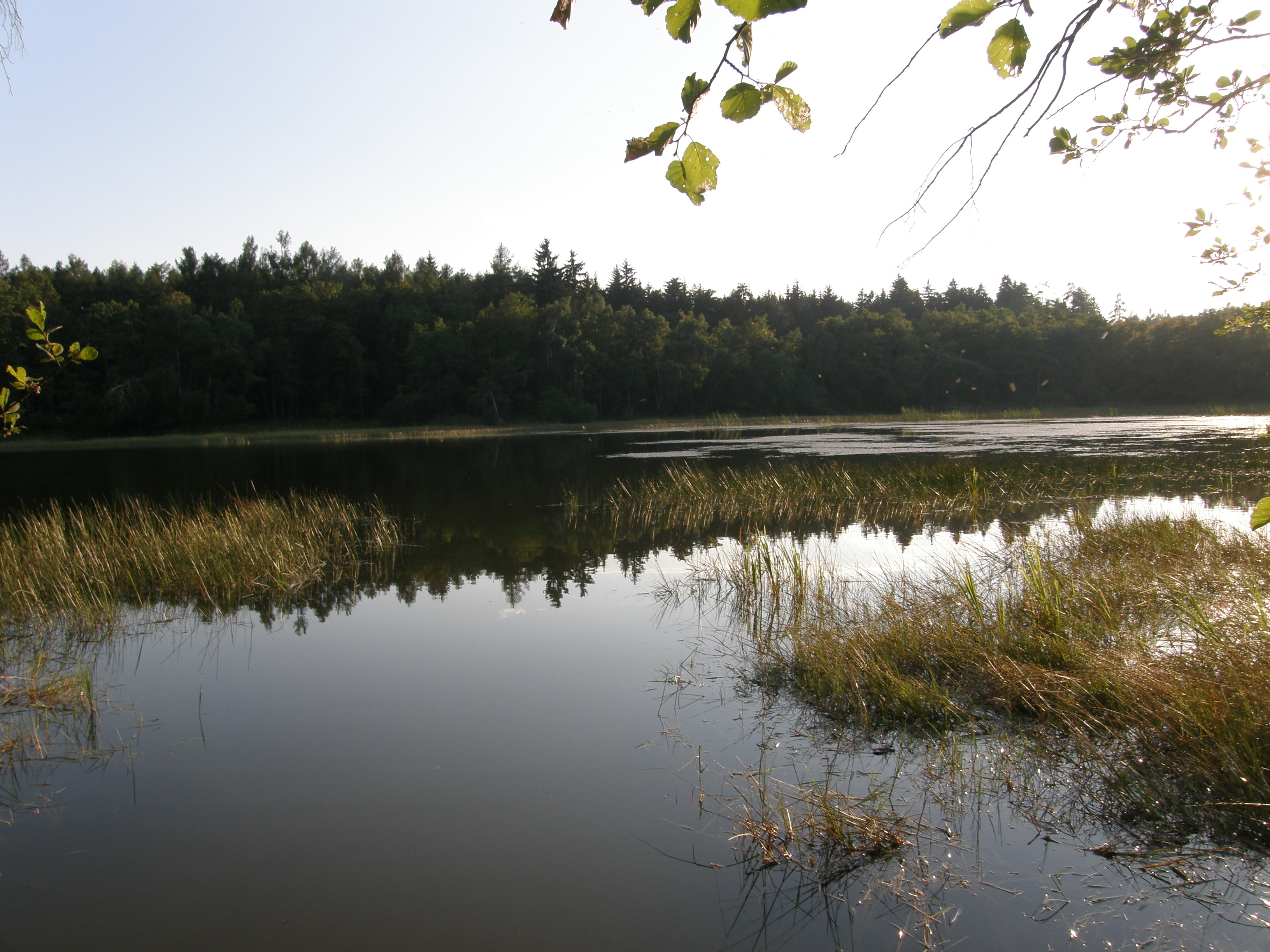 Natural monument Velký Troubný in Jindrřichův Hradec District, Czech Republic.